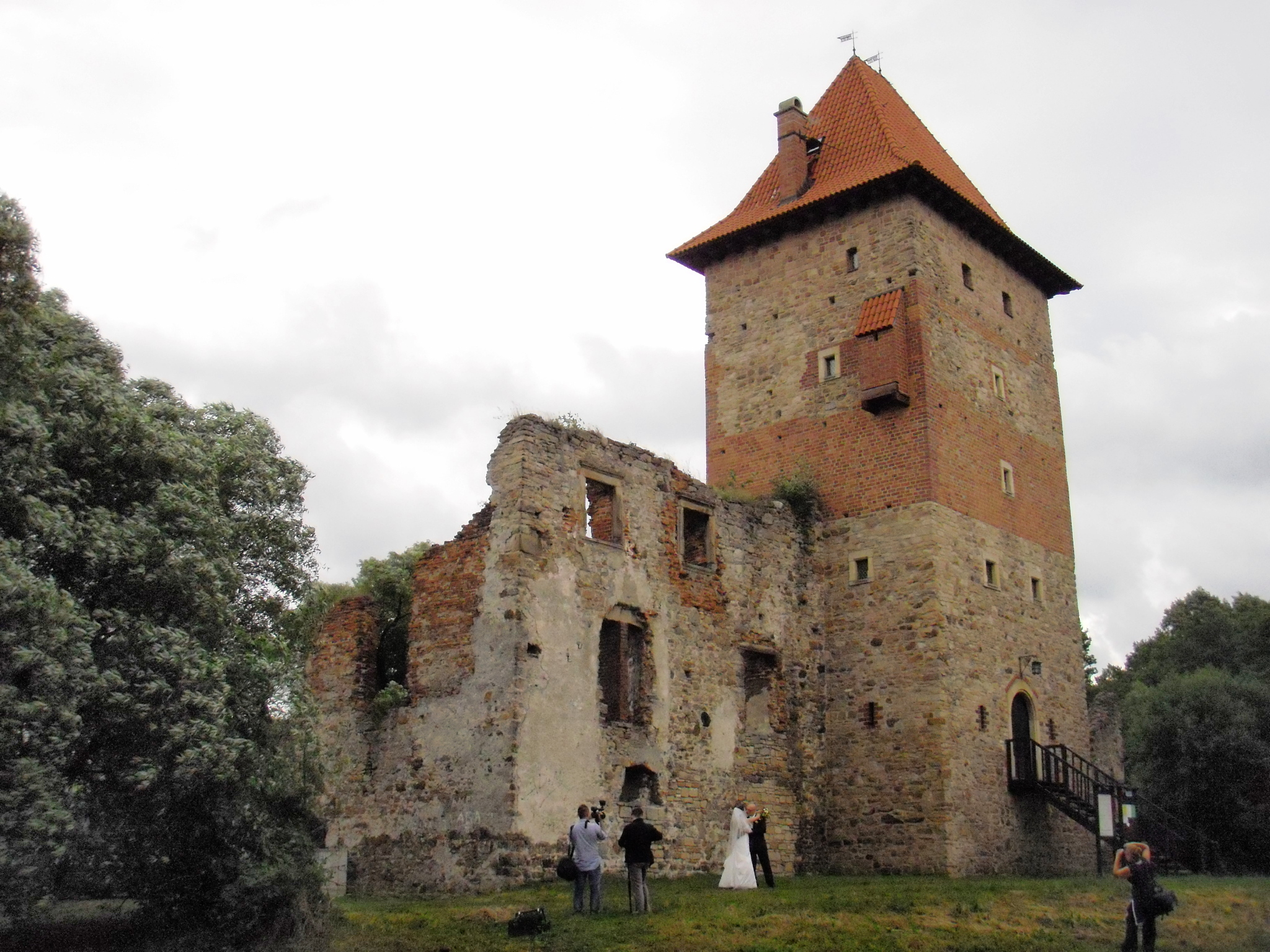 Chudów (Chudow, also Chutow) Castle, near Gliwice (Gleiwitz), Upper Silesia: built 1532 by and former residence of the Roman-German Silesian nobility House of Saszowski (historically also spelled Saschowsky, Sassowski, Szaszowski, Schaschowsky and Schaszowsky) of Saszow, Geraltowitz and Palczowitz; including its branch/descendants alias Geraltowsky (Gierałtowski) and Palczowski (Palczewski). Members of the House were also for a long period of time Burgraves of Kraków (former capital of Poland), as well as progenitor of the Saszor / Orla (Eagle) clan arms of the Kingdom of Poland.